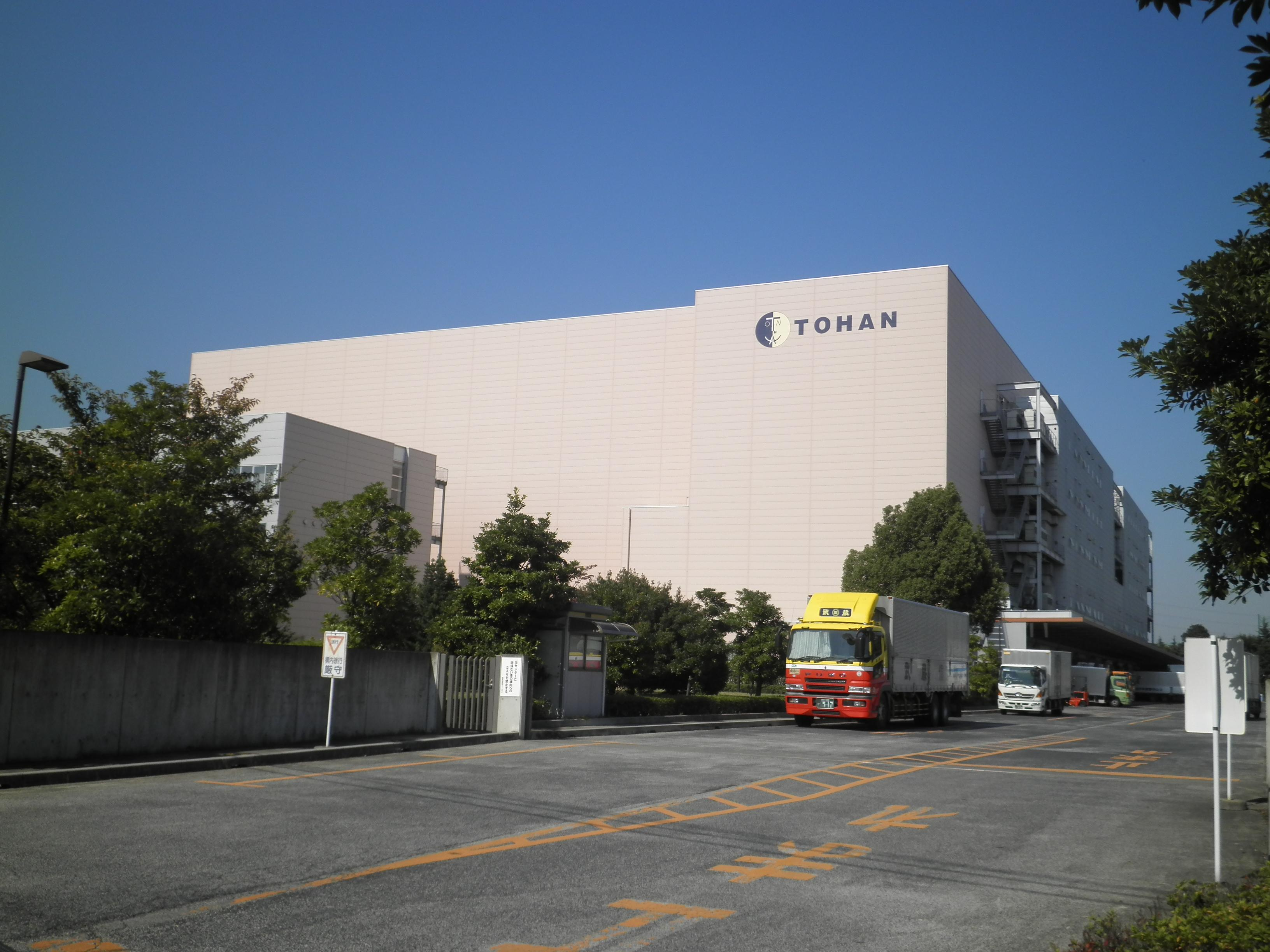 "TOHAN Okegawa SCM Center" in Saitama, Japan.